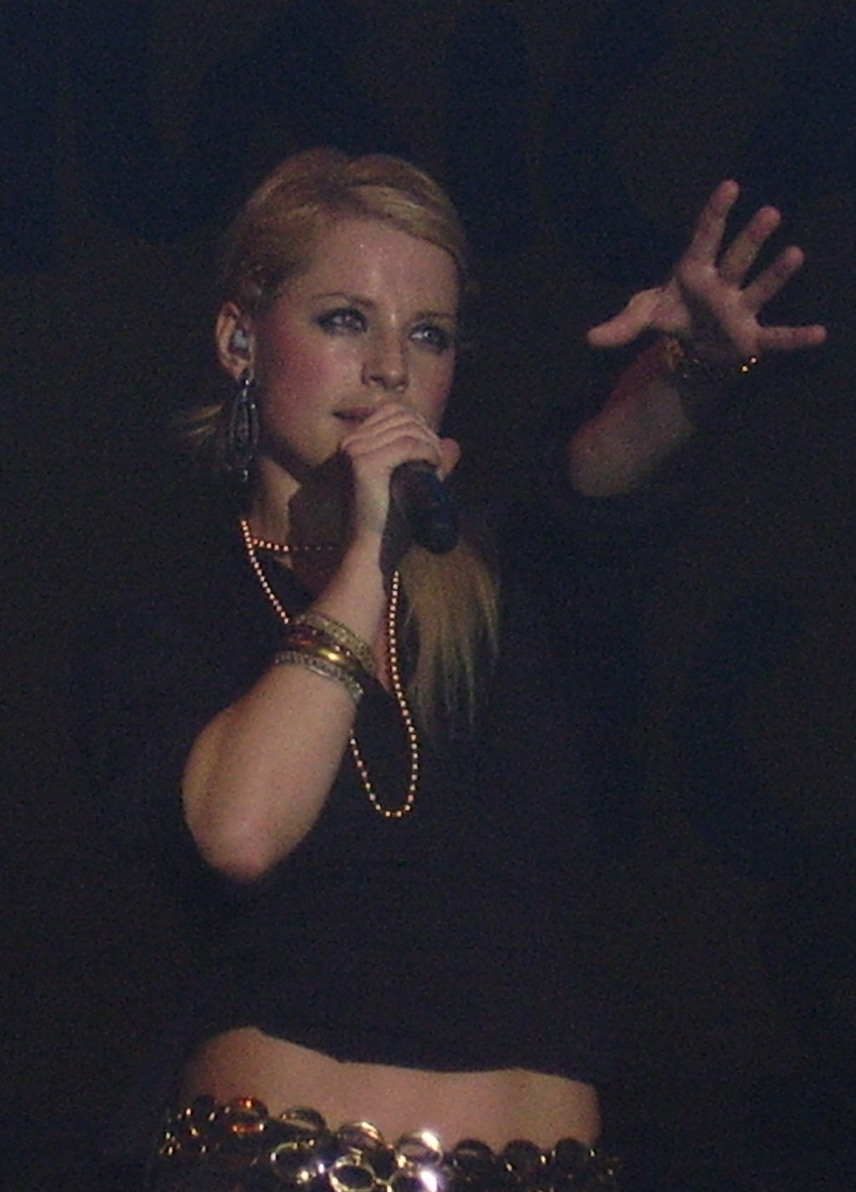 Soraya Arnelas performing in Barcelona